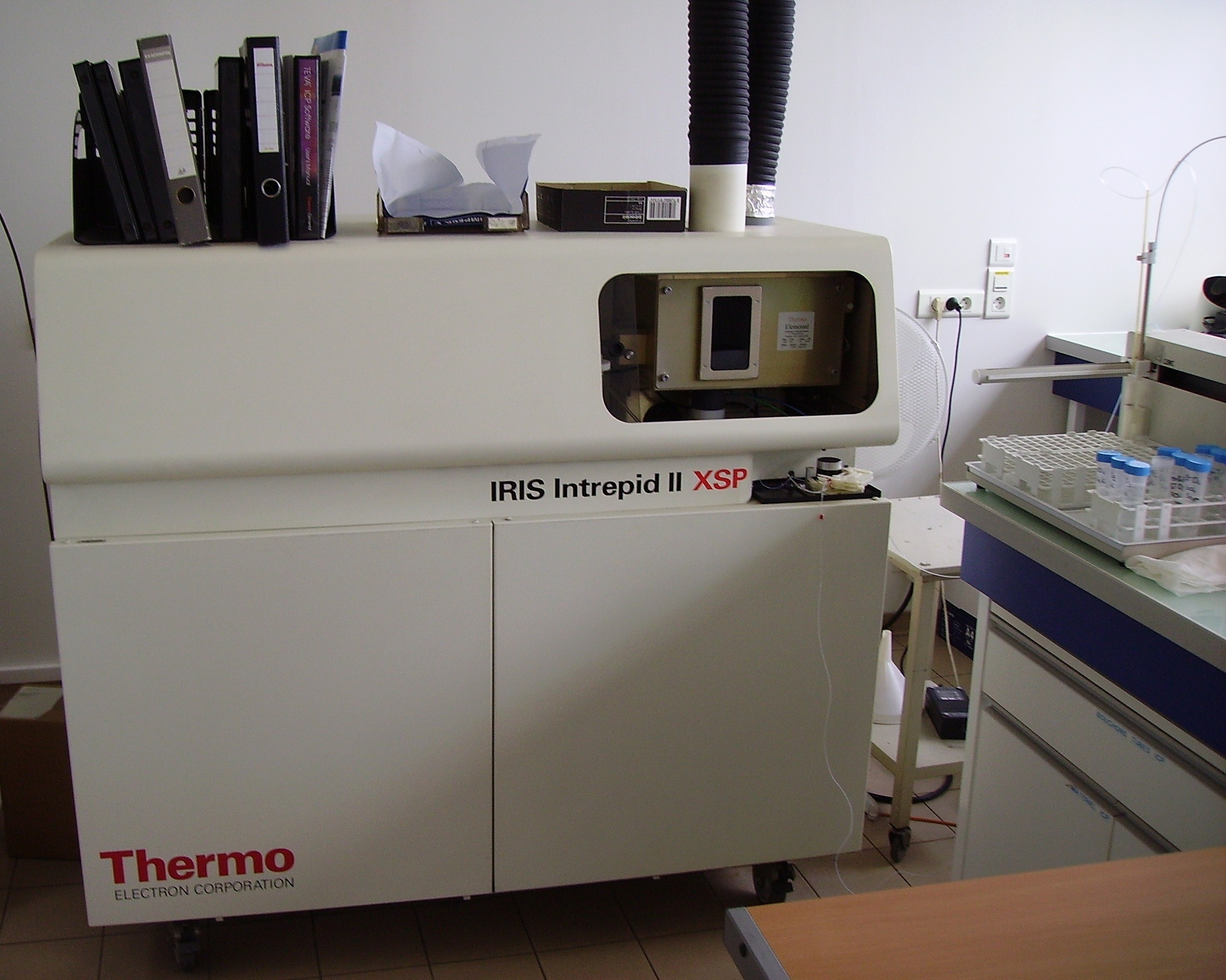 Inductively coupled plasma (ICP) spectrometer.